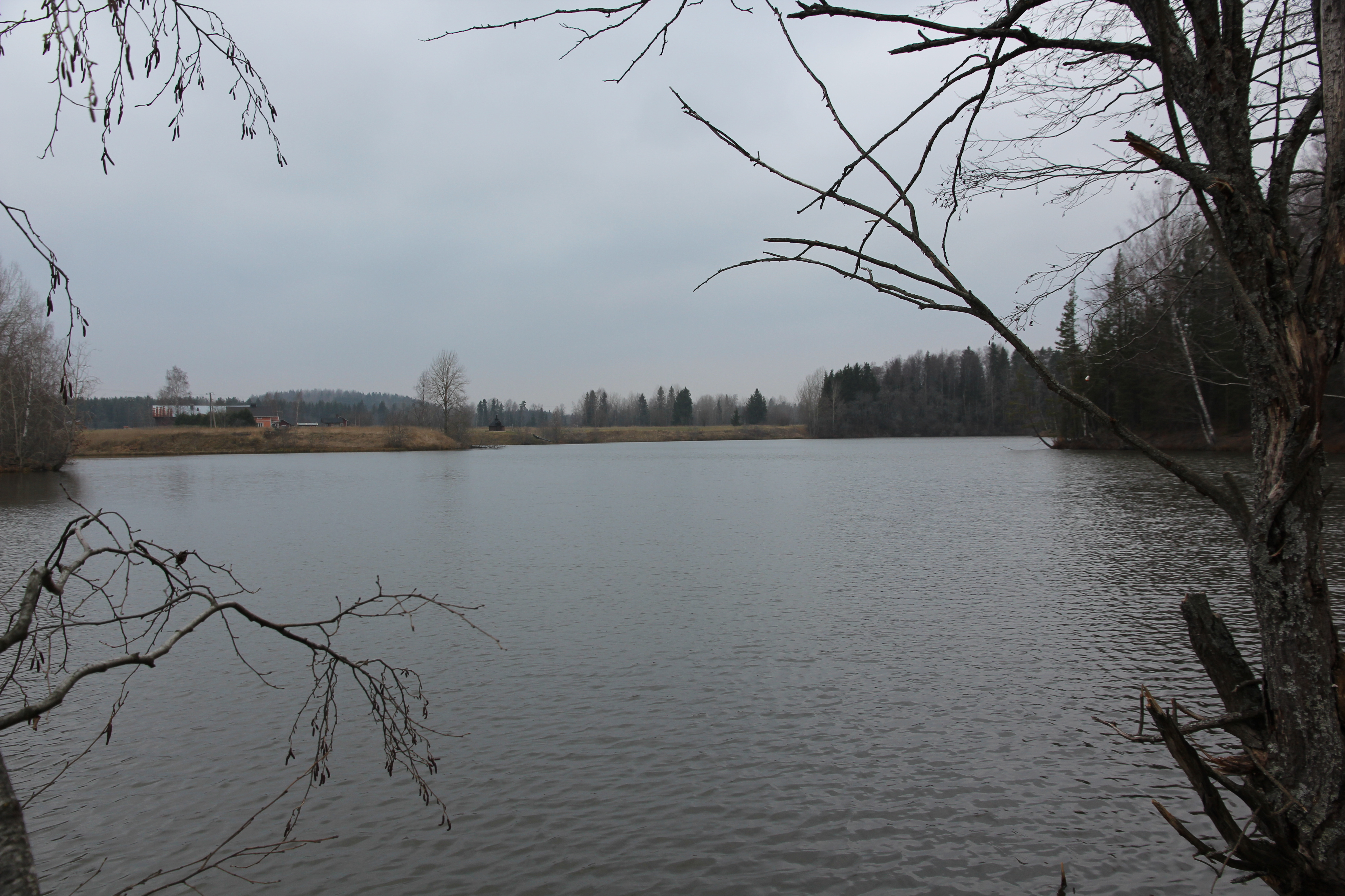 Hallikkaanjoki river in Imatra.